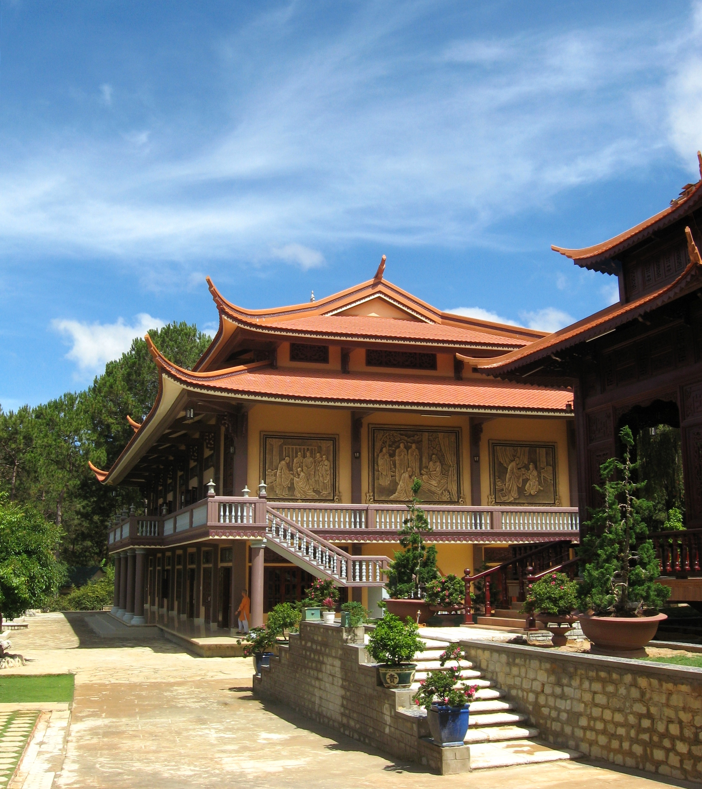 Truc Lam Zen Monastery — at Da Lat.